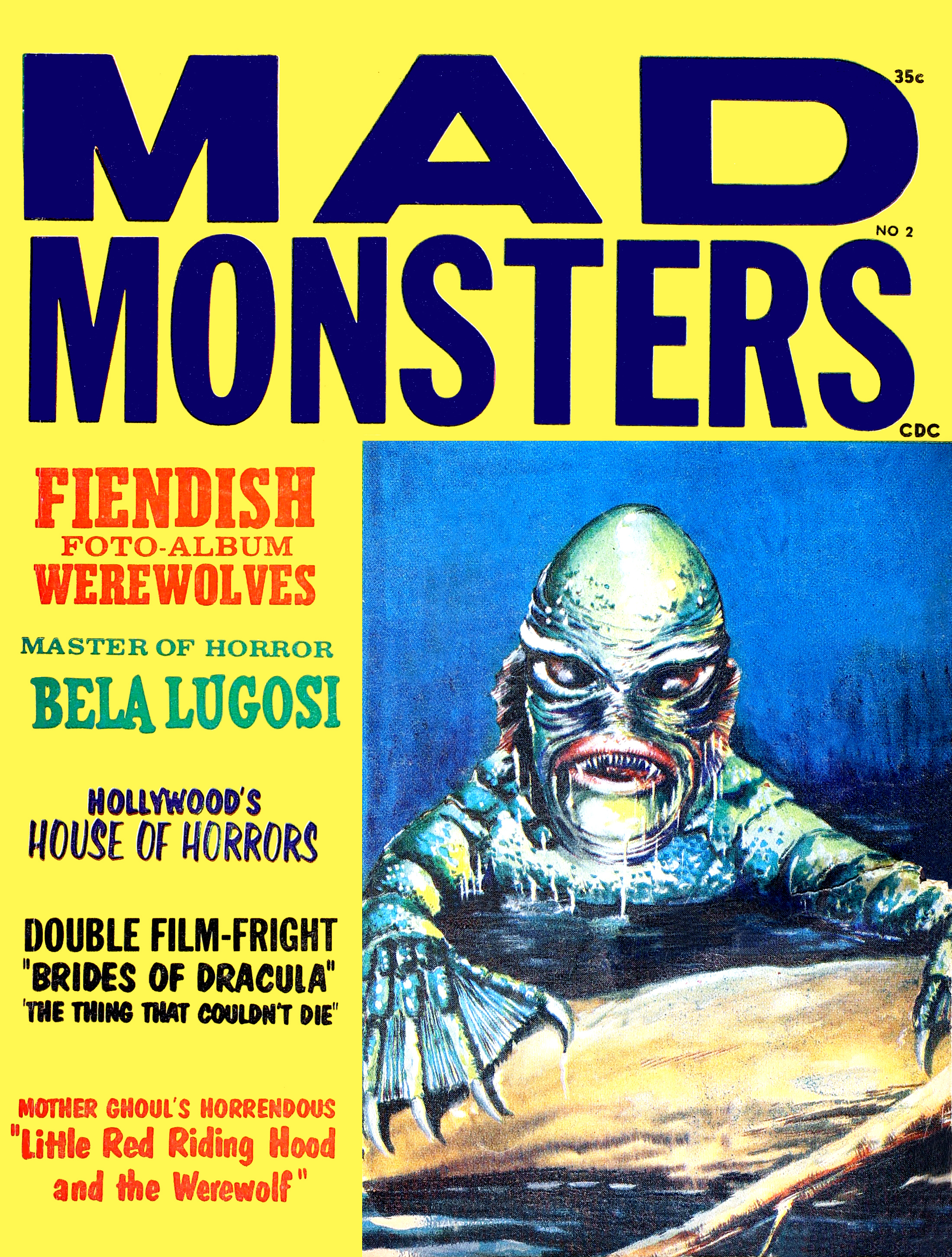 Debuting in 1961, Mad Monsters was Charlton's answer to Famous Monster of Filmland. Each issue featured painted covers with black & white interiors running to around 70 pages.